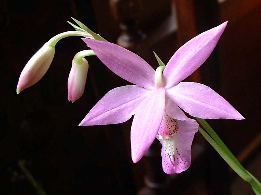 photo of species